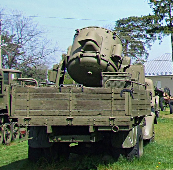 An APM-90 aerobeacon mounted on ZIS-150 truck